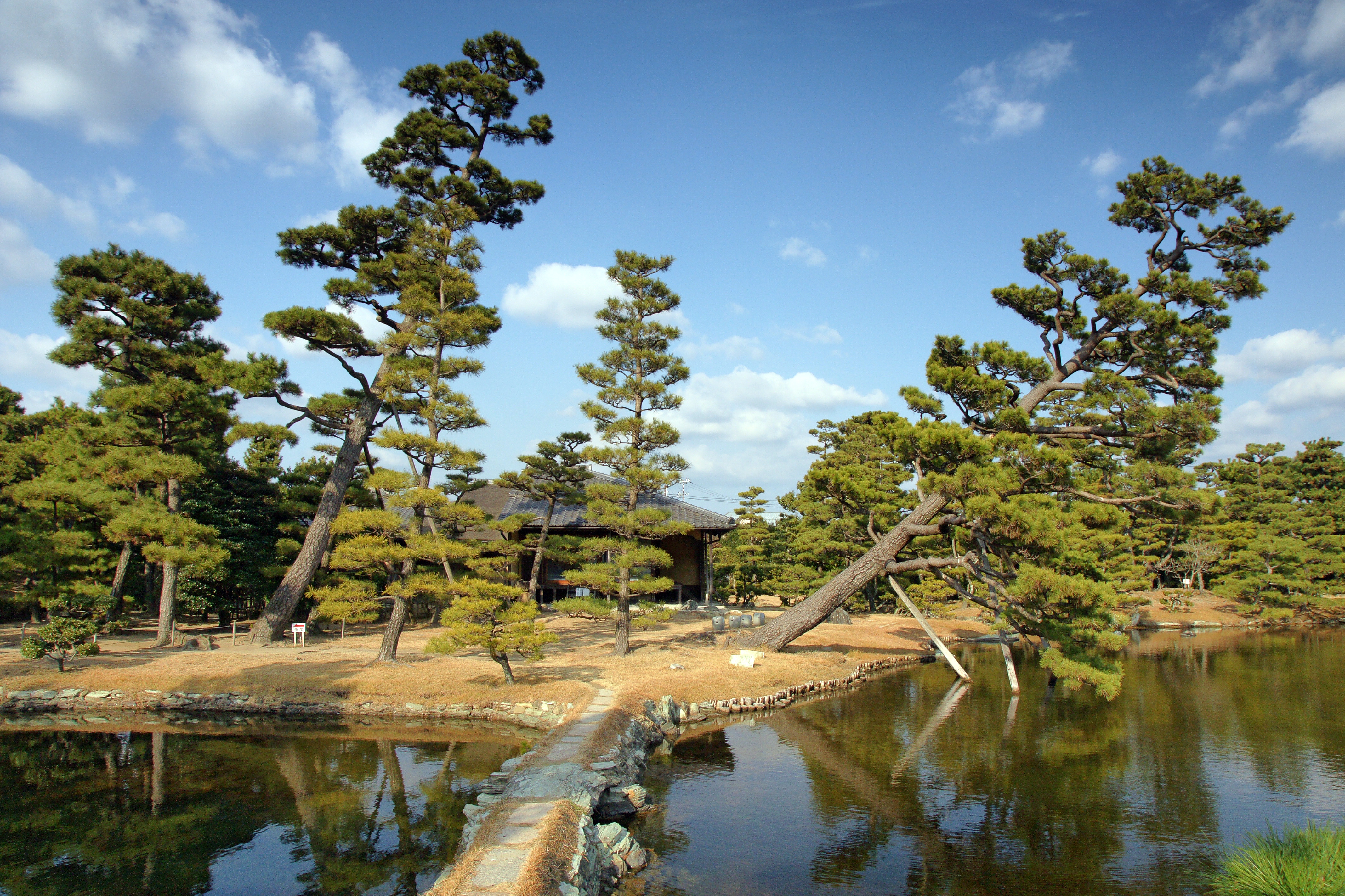 Pruned Pinus thunbergii, Yosuien, Wakayama, Wakayama prefecture, Japan